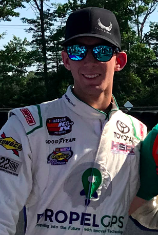 Colin Garrett at New Jersey Motorsports Park in 2018.